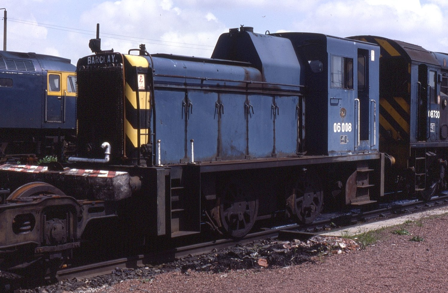 35 of these shunting locos were built by Andrew Barclay & Sons in Scotland and spent their entire working life in Scotland. 10 got renumbered to British Rail TOPS classification. This view of 06008 is seen at Polmadie depot on 4 June 1983 during a Railway Correspondence and Travel Society depot visit.